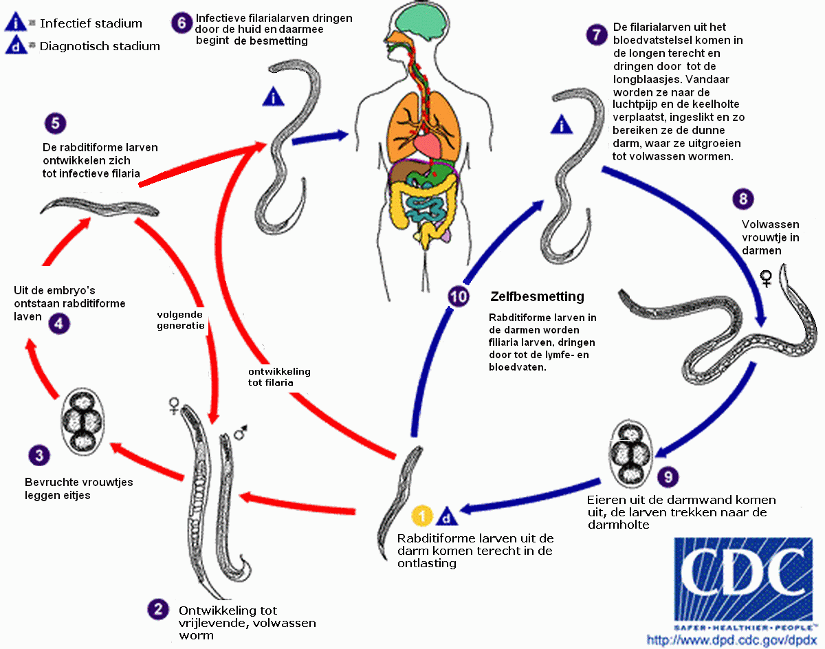 Life cycle of Strongyloides_stercoralis, causative agent of Strongyloidosis